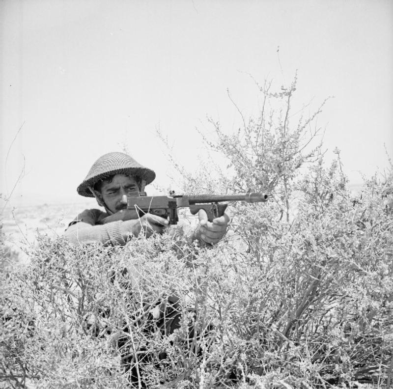 Commonwealth Forces in North Africa A soldier of the 4th Indian Division armed with a Thompson SMG uses a bush as cover, 21 June 1941.